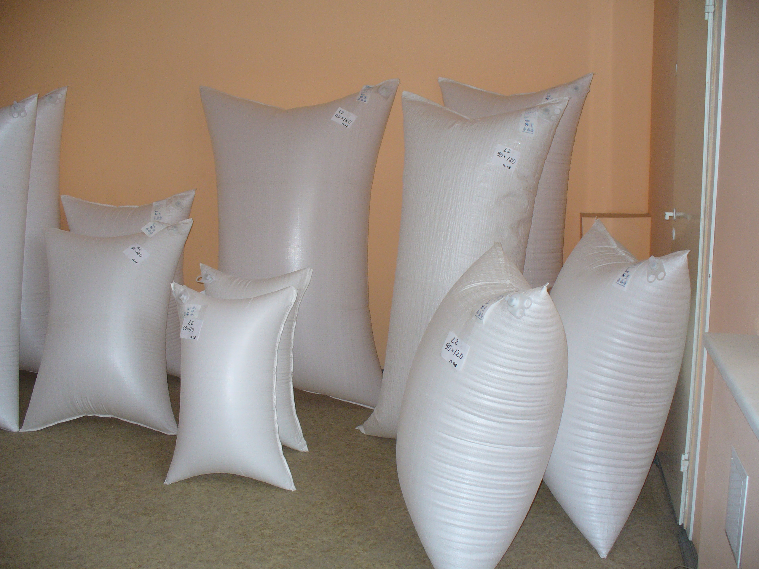 pnevmoobolochka in office